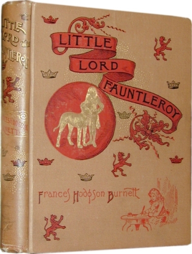 Photograph of the front cover and spine of the 1886 first edition of Little Lord Fauntleroy First edition, first issue with DeVinne Press imprint